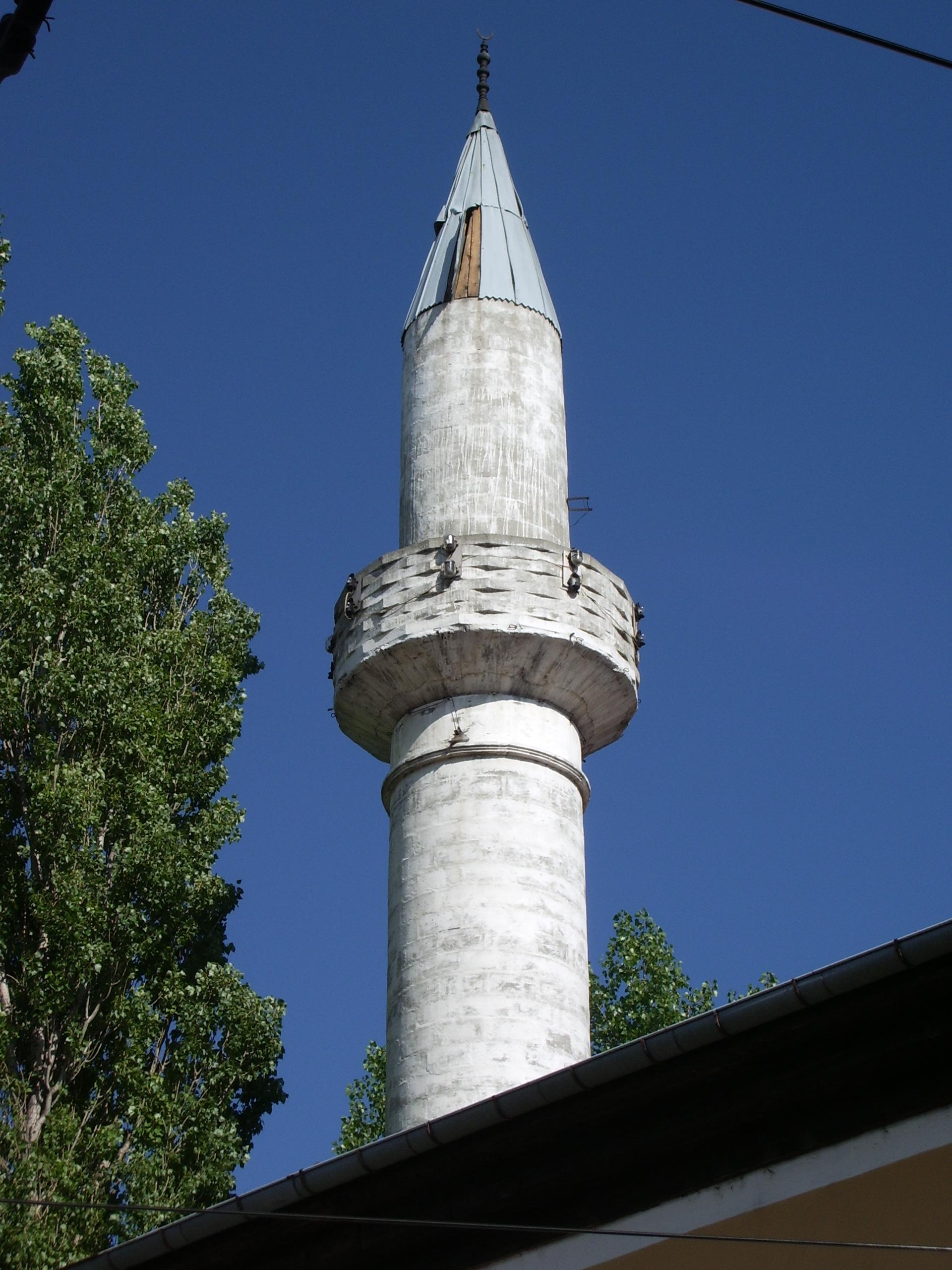 The "Seid pasha" mosque in Rousse, Bulgaria.